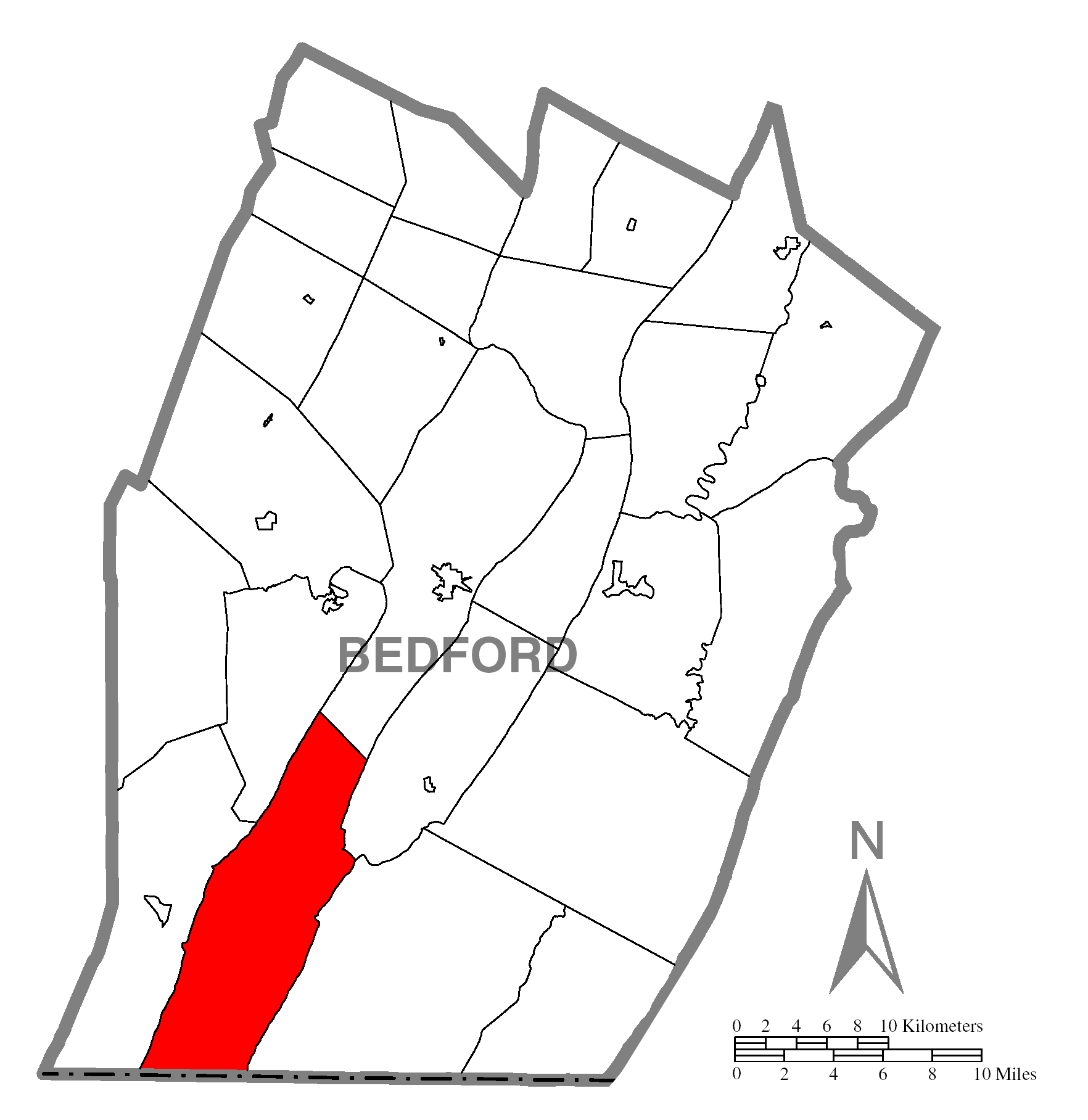 A map of Bedford County showing Cumberland Valley Township, Pennsylvania (alternate) highlighted on the map.